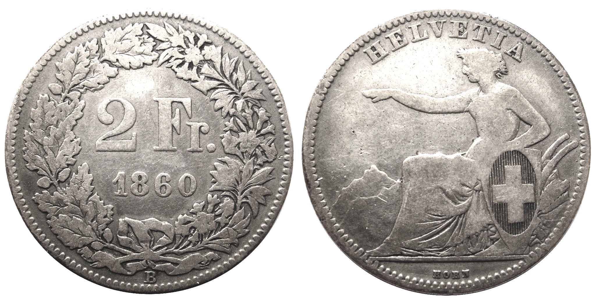 2 francs switzerland 1860 silver sitting helvetia